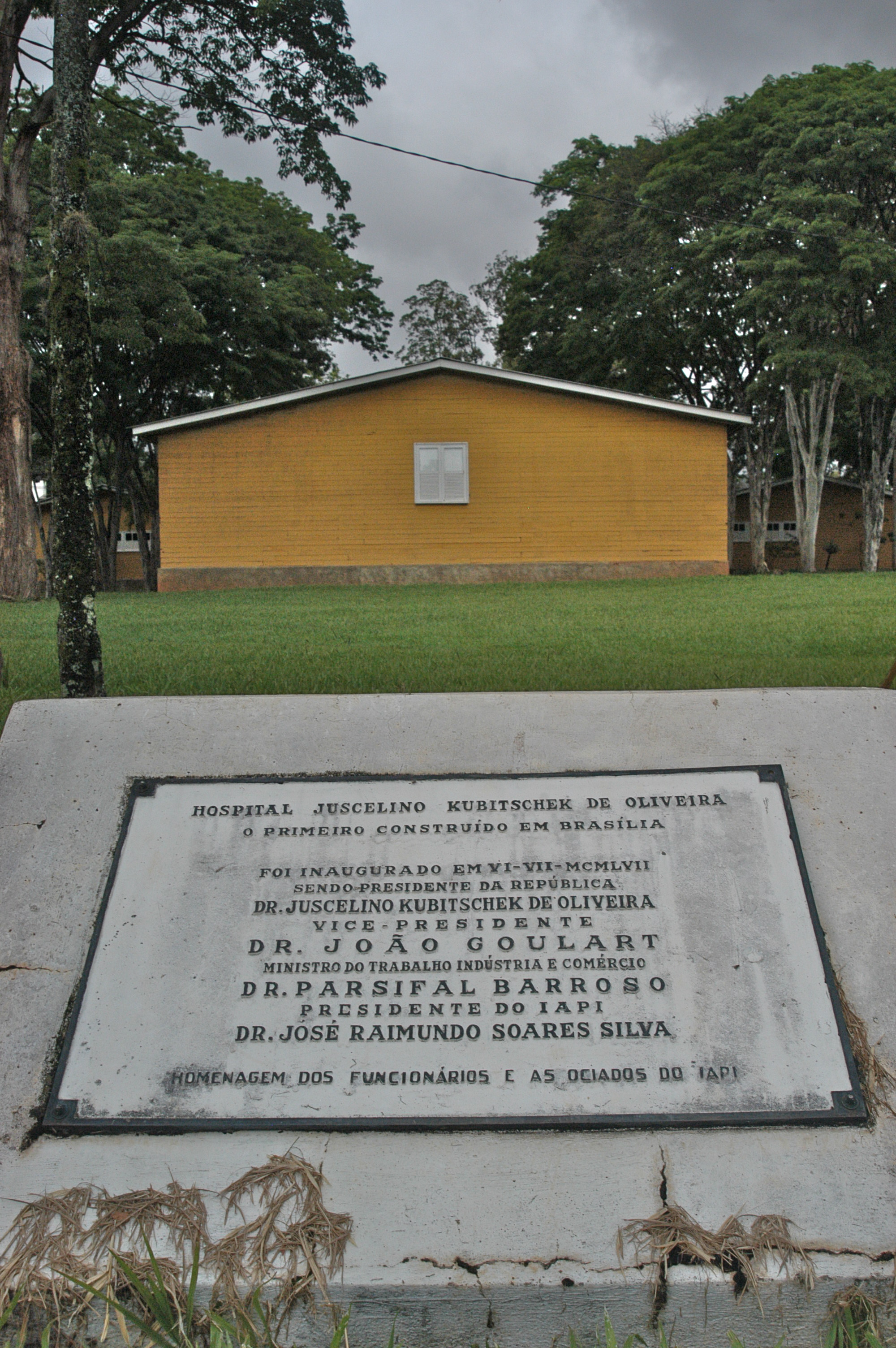 Live History of Brasilia Museum, in the capital of Brazil